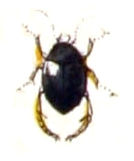 Hyphydrus ovatus, from Calwer's Käferbuch, Table 8, Picture 14. Taxonomy was updated to 2008, using mostly the sites Fauna Europaea and BioLib. Please contact Sarefo if the determination is wrong!